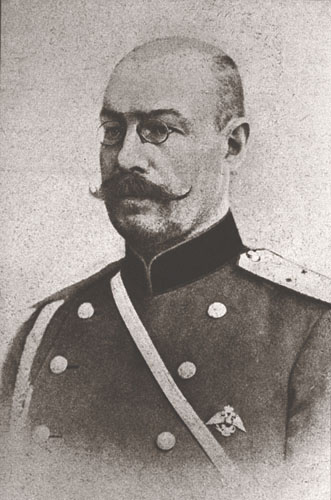 Mikhail Dmitriyevich Bonch-Bruyevich